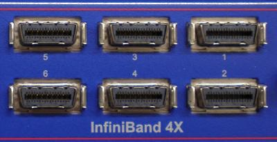 Infiniband Ports: Voltaire ISR-6000 Infiniband Switch. 6-port module with CX4 ports; 10Gbps (SDR) Infiniband